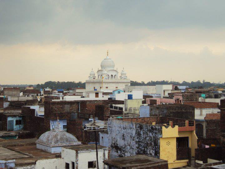 Chhathavi Padshahi Gurudwara (Hindi: छठवी पादशाही गुरुद्वारा), Pilibhit